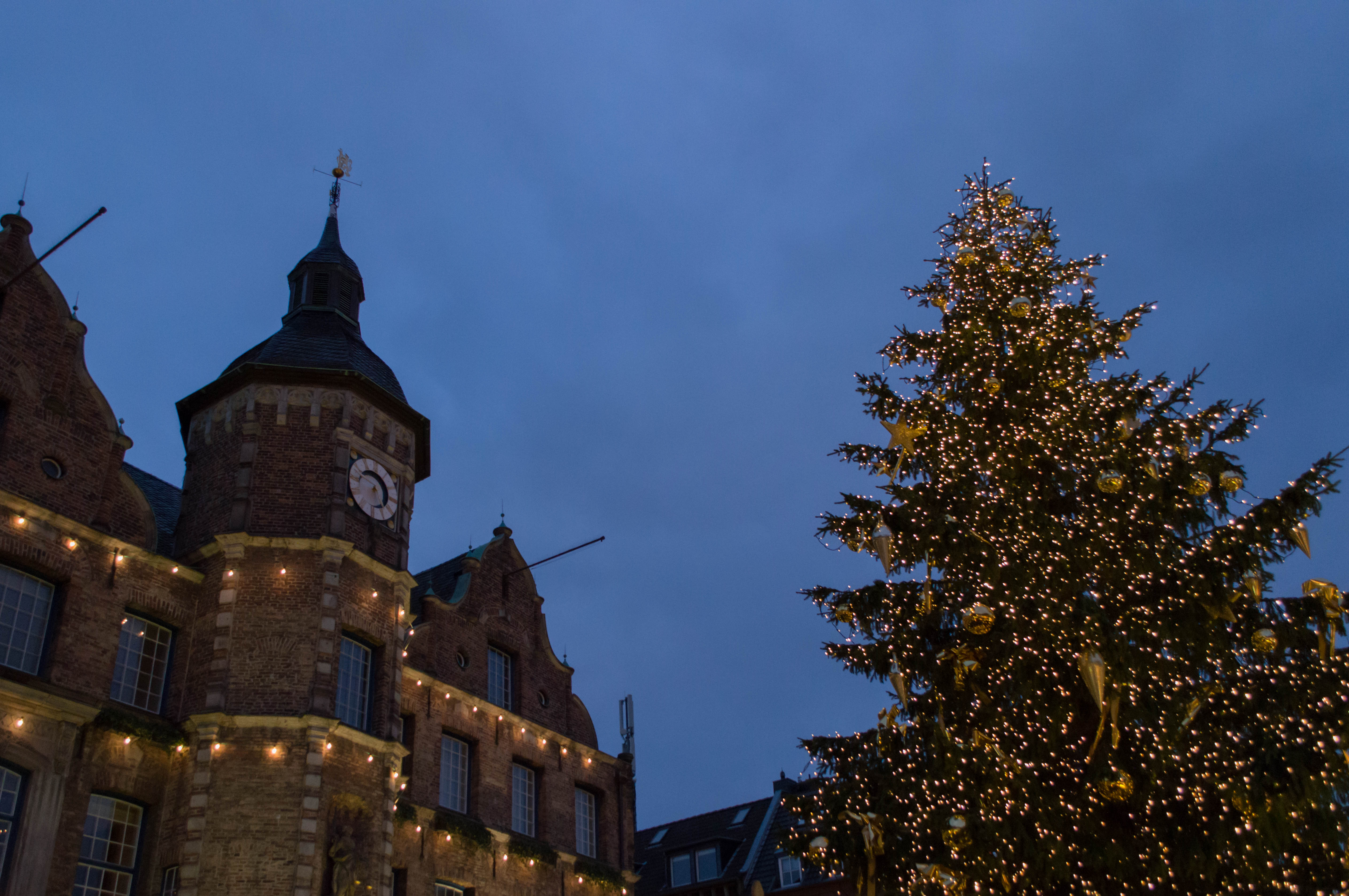 The Düsseldorf Rathaus on the left and on the right a christmas tree, which is part of the christmas market in the city.